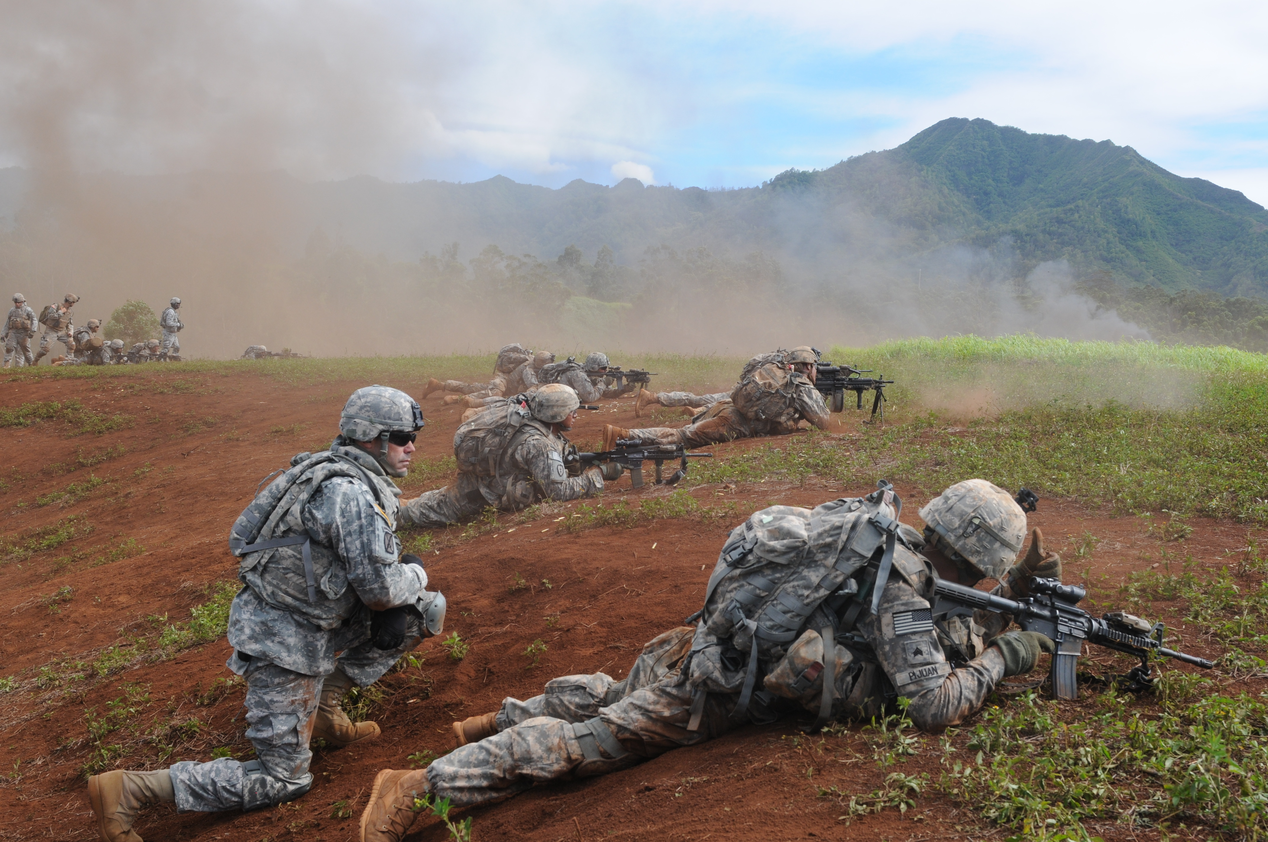 U.S. Soldiers assigned to the 3rd Brigade Combat Team, 25th Infantry Division move toward a simulated enemy during exercise Bronco Rumble at Schofield Barracks, Hawaii, May 8, 2013. The company-level combined arms live-fire exercise aimed to help participants develop critical thinking and tactical skills.